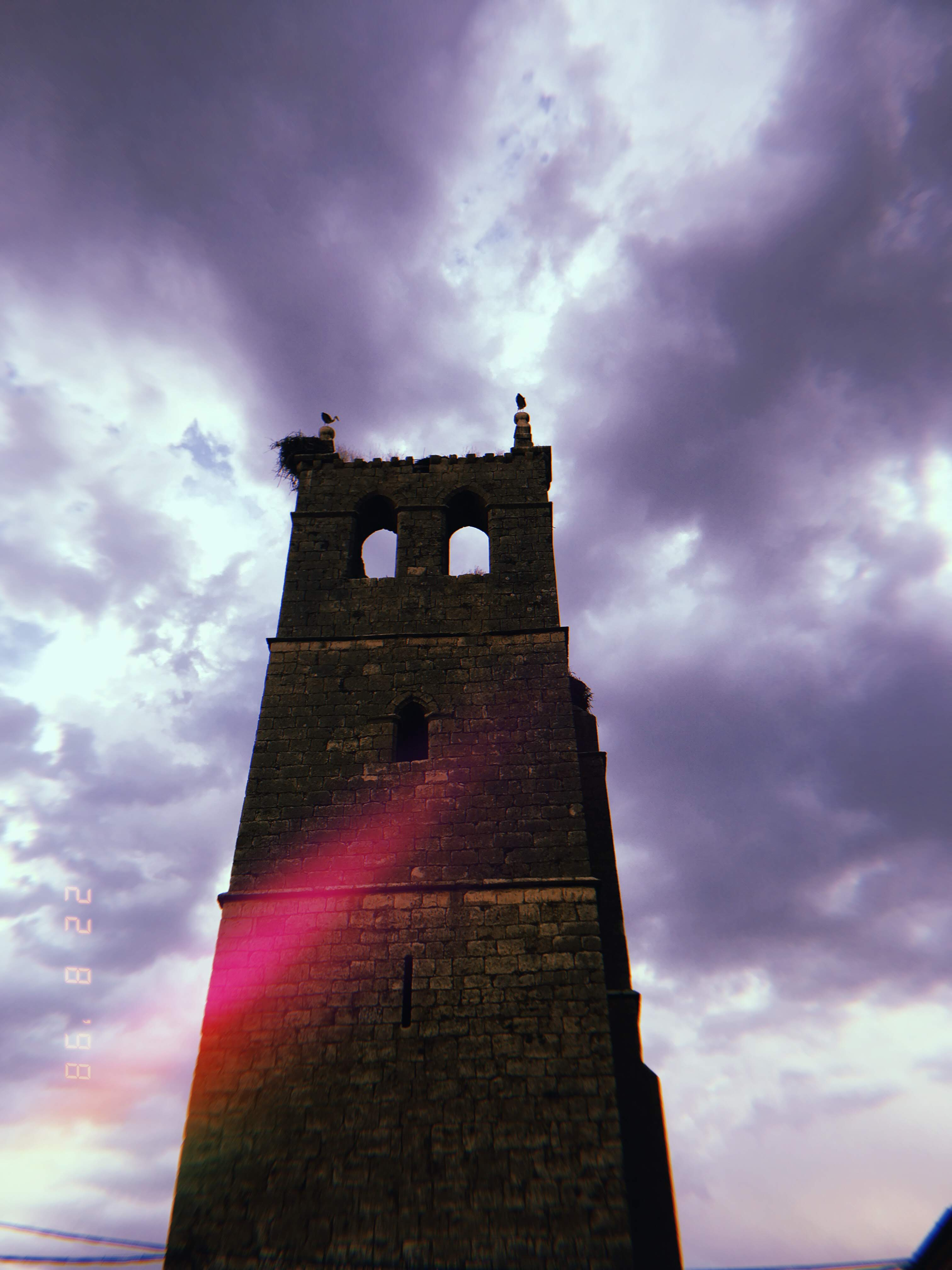 San Pelayo tower